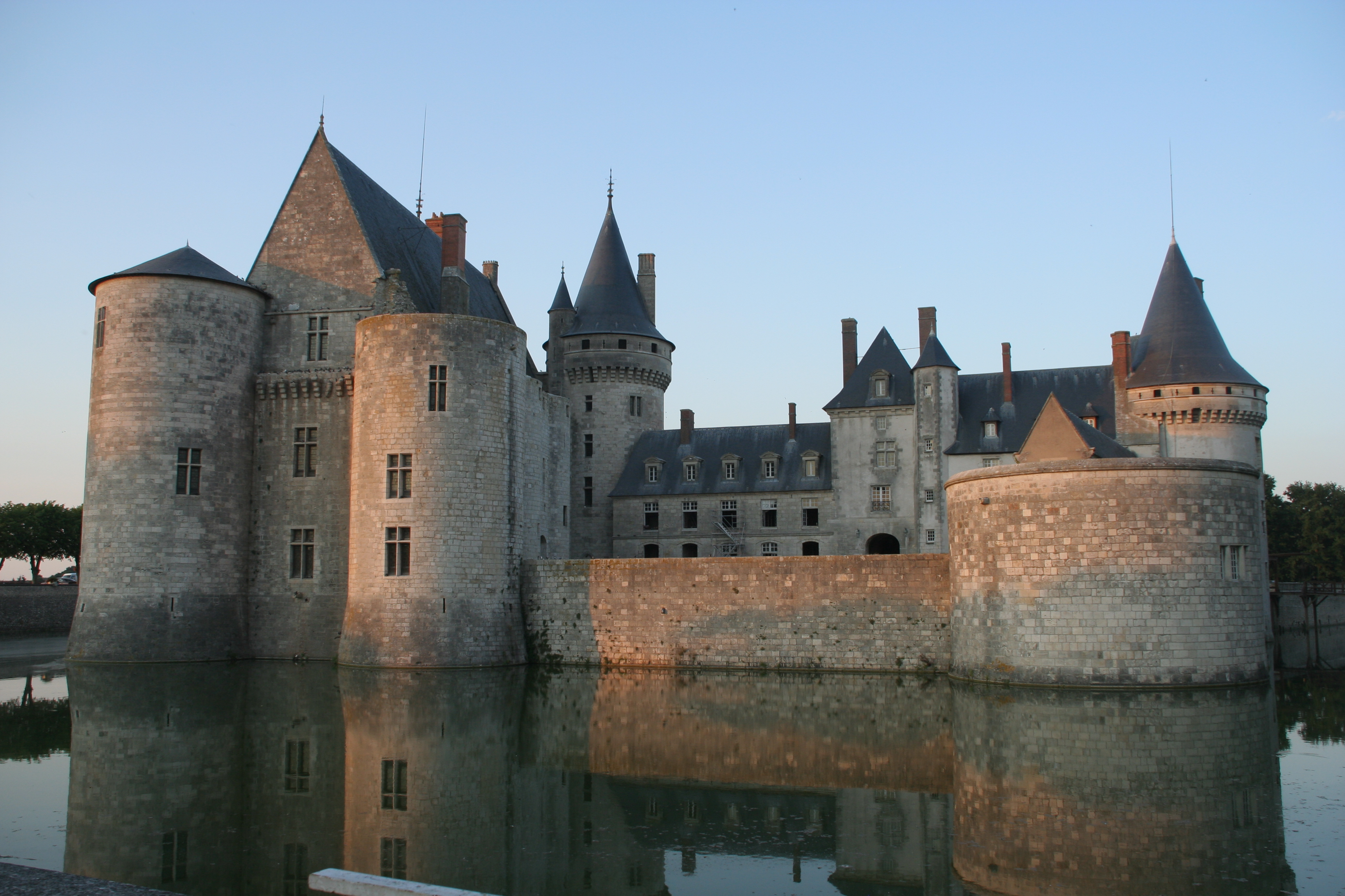 Courtyard of castle of Sully